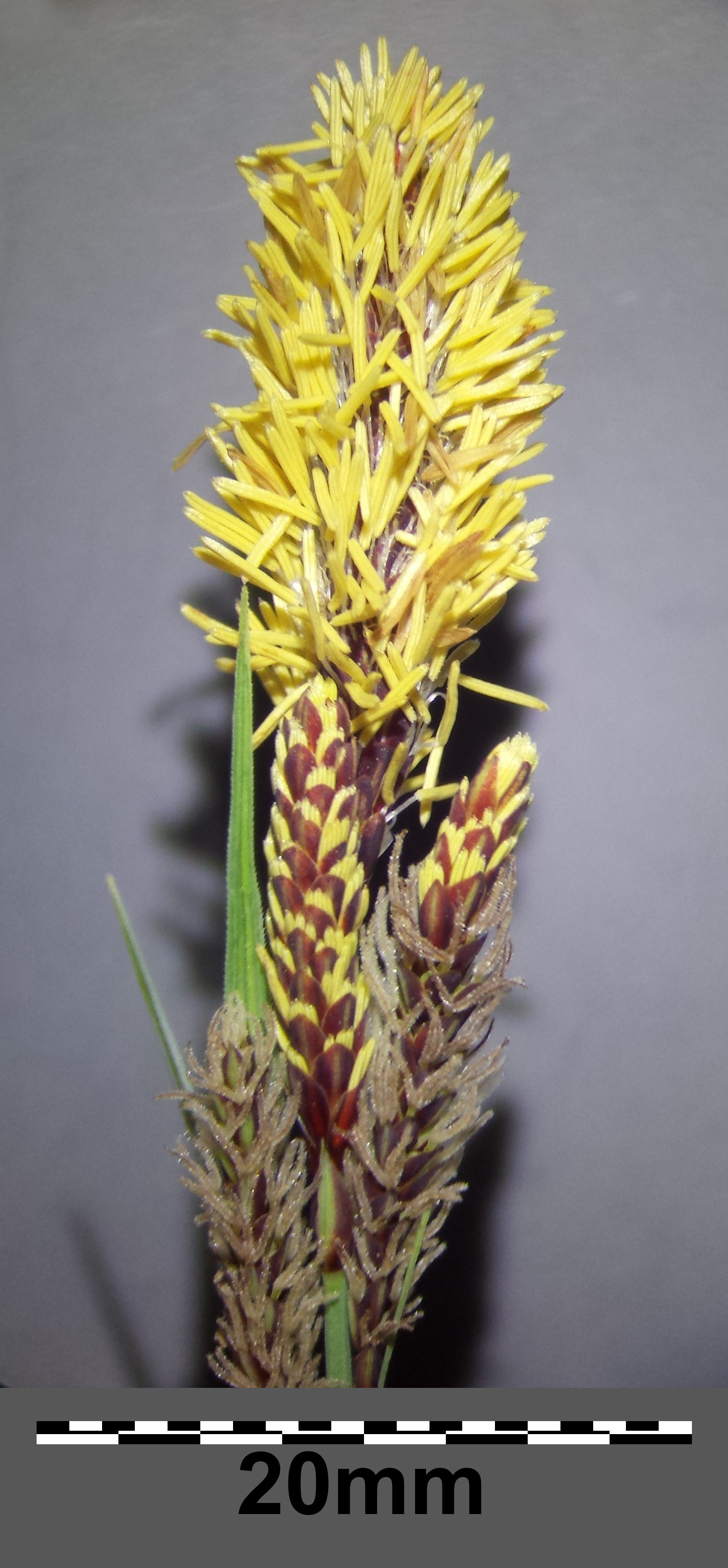 ♂ spikes (at the top) Taxonym: Carex flacca (subsp. flacca) ss Fischer et al. EfÖLS 2008 ISBN 978-3-85474-187-9 Location: Latschenberg near Altenmarkt im Thale, district Hollabrunn, Lower Austria - ca. 330 m a.s.l. Habitat: semi-dry grassland